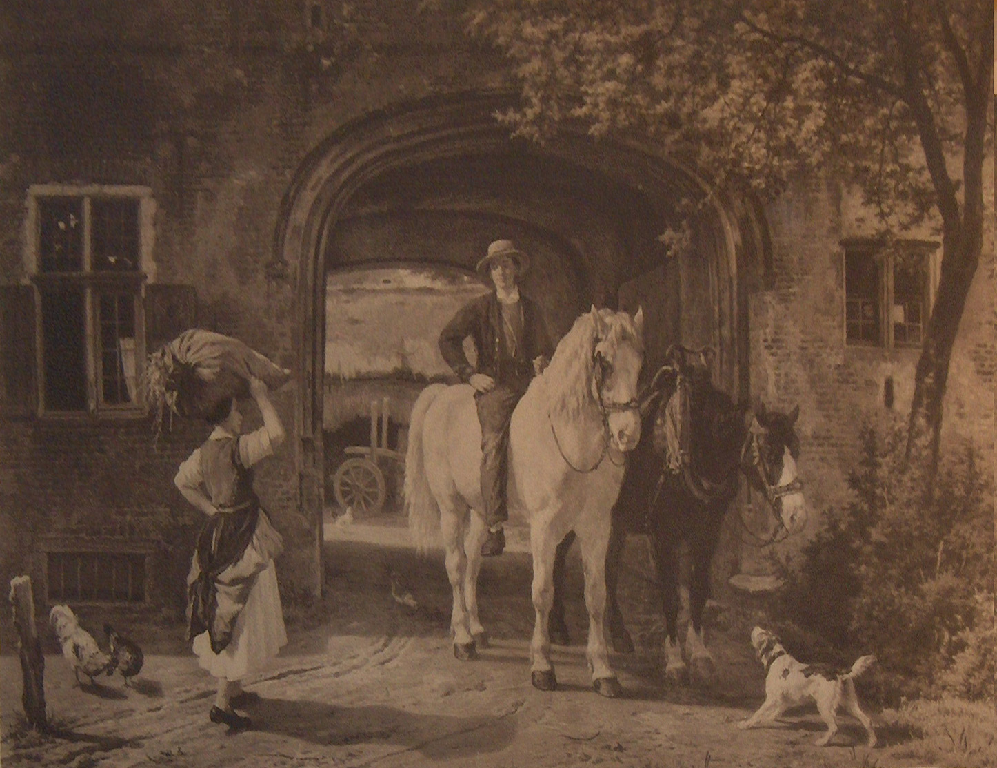 "Departure to the fields" engraving by Louis Van Kuyck (1821-1871) private collection